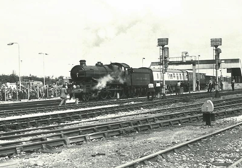 GWR "Castle" 4-6-0 No.4079 "Pendennis Castle" (with single chimney & 2-row superheater and Collett 4,000 gll tender) in 1923 GWR lined green livery at Bristol (Parkway) on its last journey in the UK before shipment from Avonmouth Docks to Australia, 07/77. Scanned photograph taken with a Kowa SET.